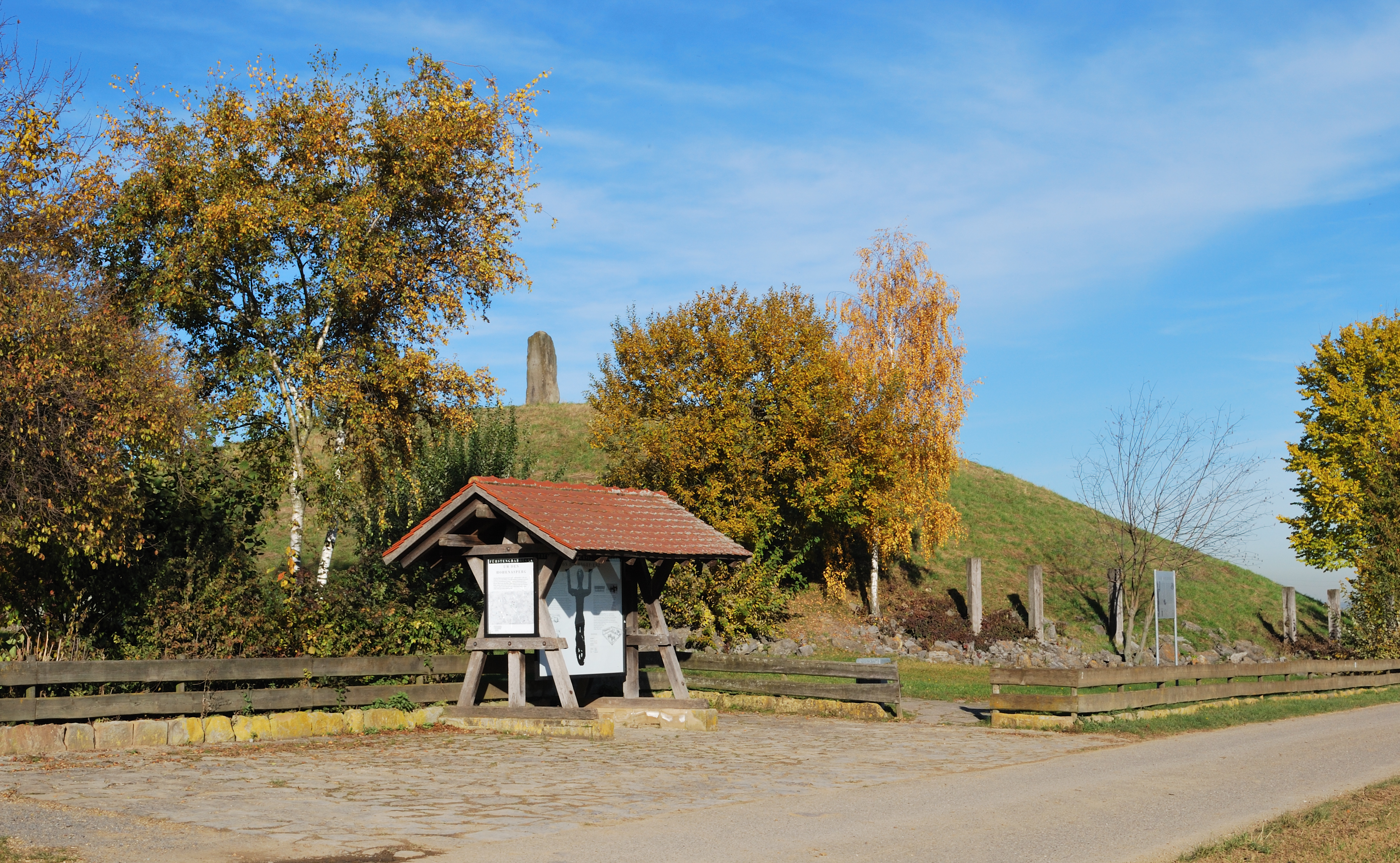 Hochdorf Chieftain's Grave in Eberdingen in the federal state Baden-Württemberg in Southern Germany.